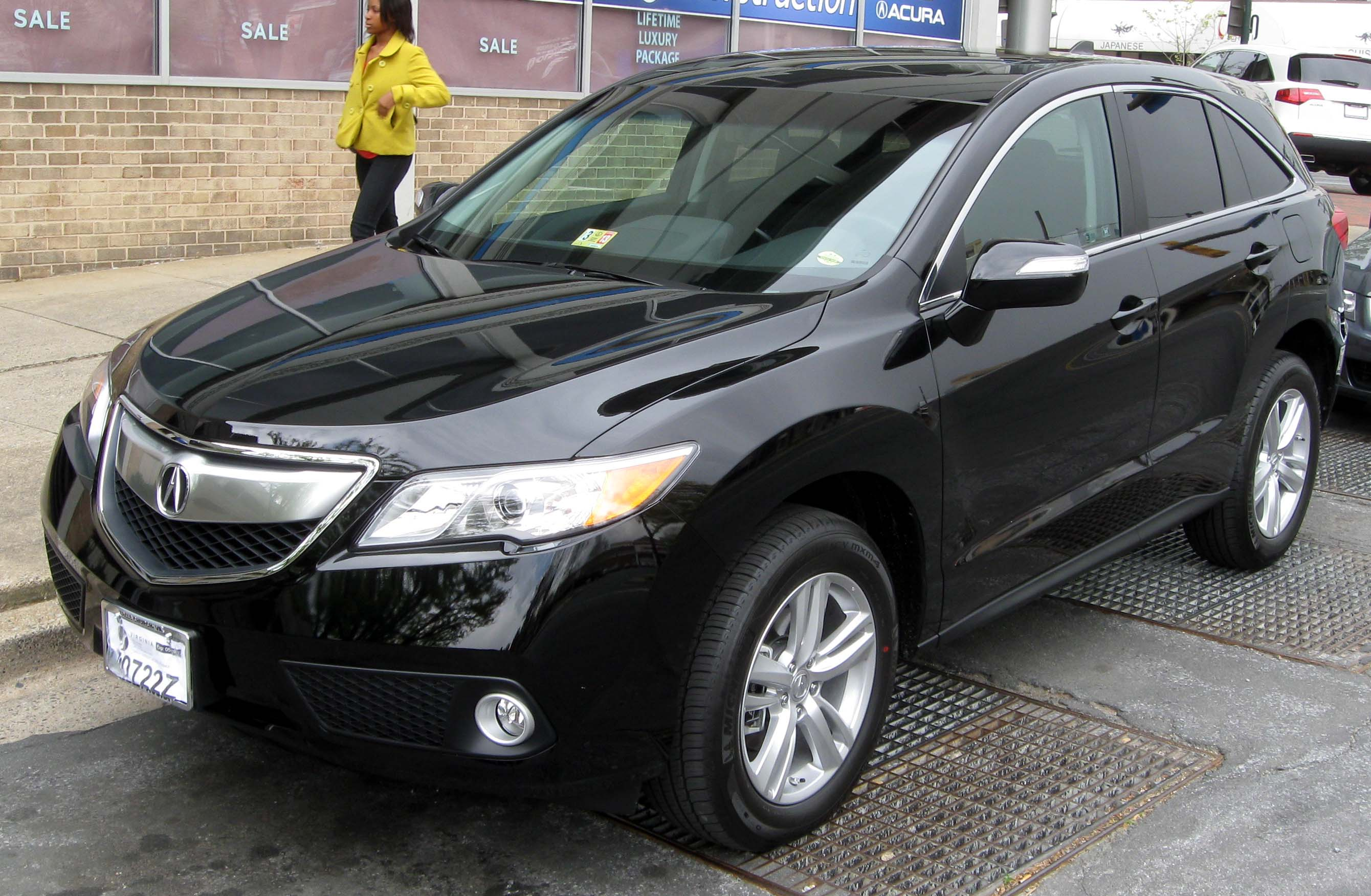 2013 Acura RDX photographed in Bethesda, Maryland, USA.